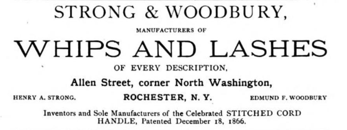 An 1887 Advertisement for Strong and Woodbury Whips and Lashes